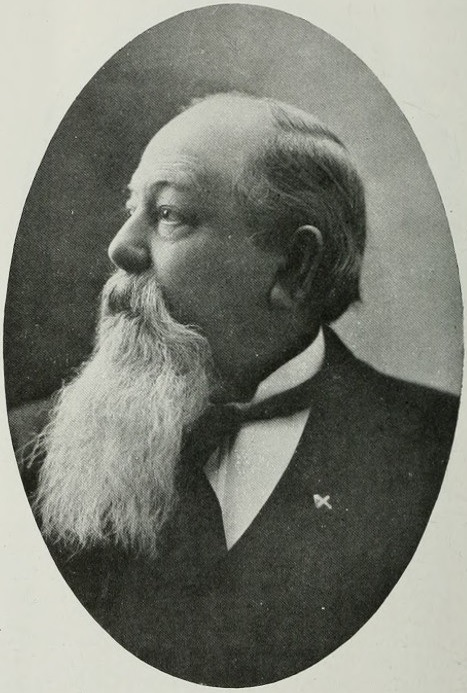 John May Taylor (Tennessee Congressman)